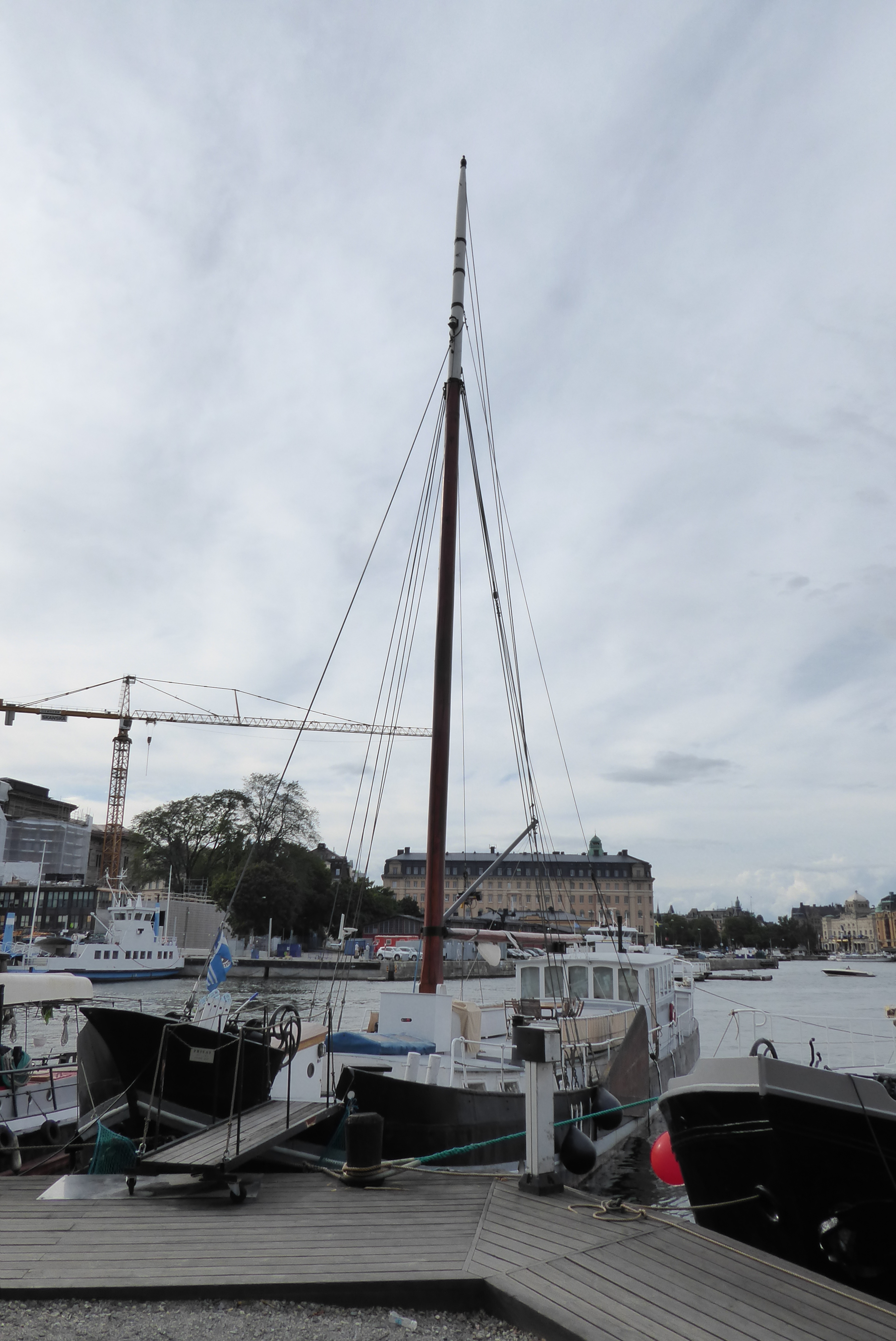 Tjalken Vertrouwen, ankrad vid Bronänken på Skeppsholmen, Stockholm